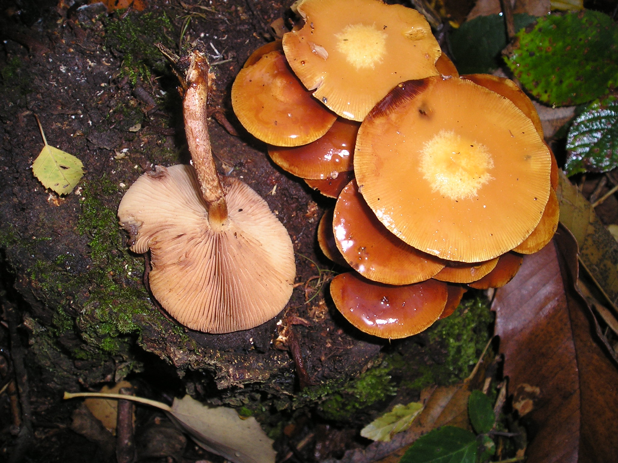 Kuehneromyces mutabilis in a French wood.